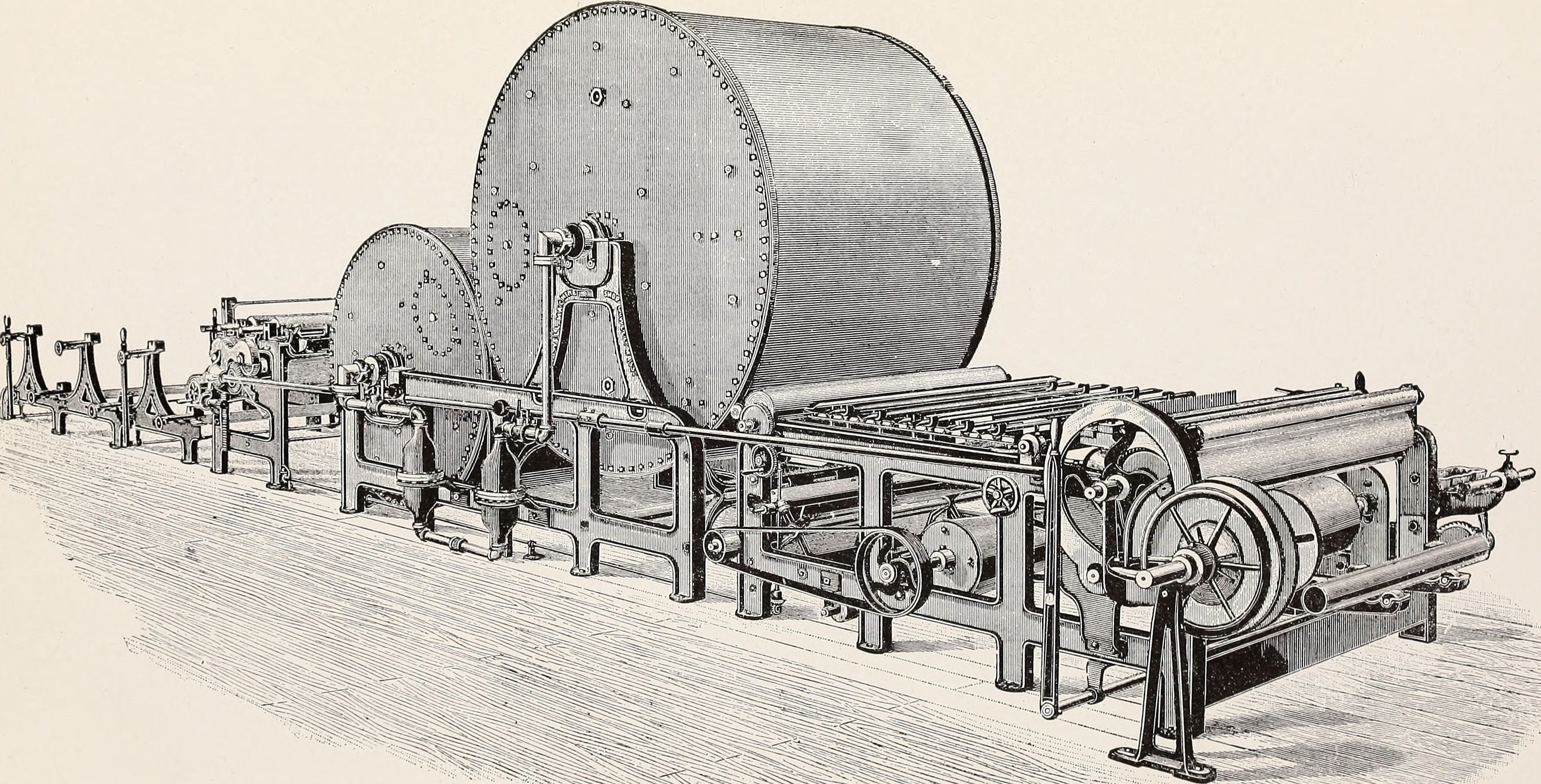 Title: The manufacture of starch from potatoes and cassava Year: 1900 (1900s) Authors: Wiley, Harvey Washington, 1844-1930 United States. Division of Chemistry United States. Department of Agriculture Subjects: Starch Potatoes Cassava Publisher: Washington, D.C. : U.S. Dept. of Agriculture, Divsion of Chemistry Text Appearing Before Image: Bui. 58, Div, Chemistry, U. S. DeDt. Agriculture. Plate V. o Text Appearing After Image: H IB Mmm Hfl Bui. 58, Div. Chemistry, U. S. Dept, Agriculture. Plate V!